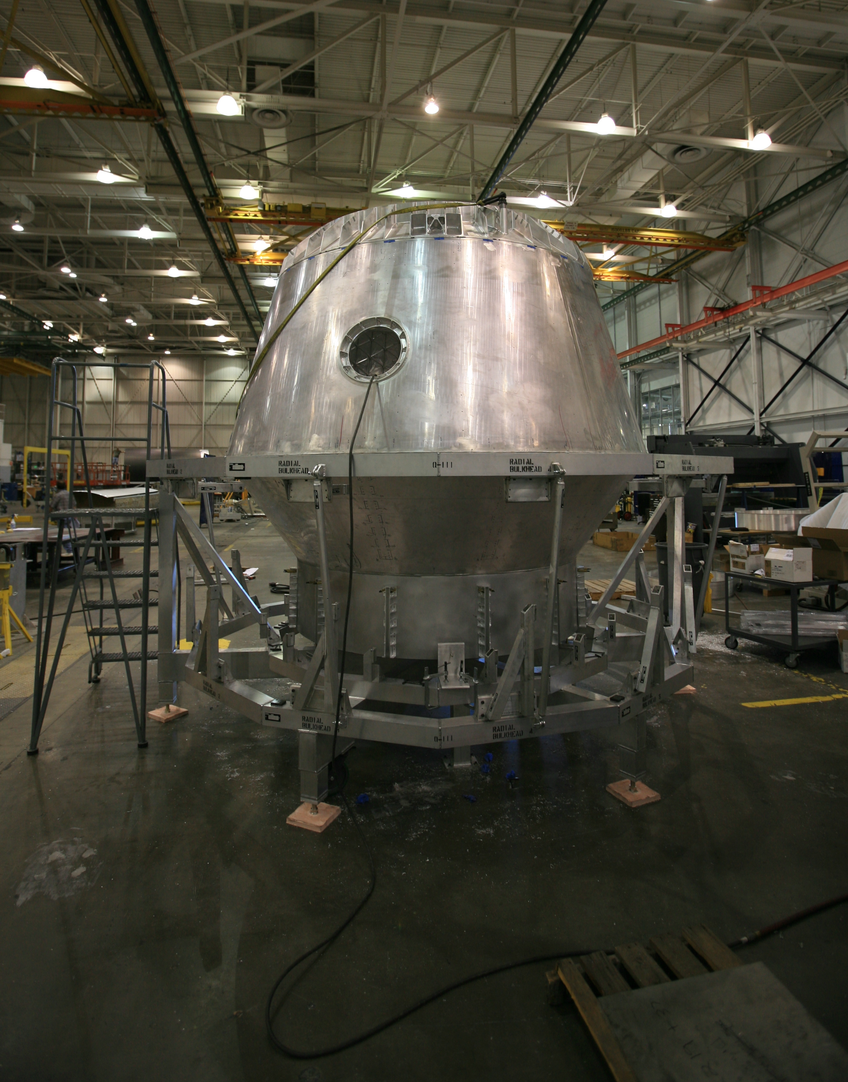 Early SpaceX Dragon pressure vessel during testing in 2008.